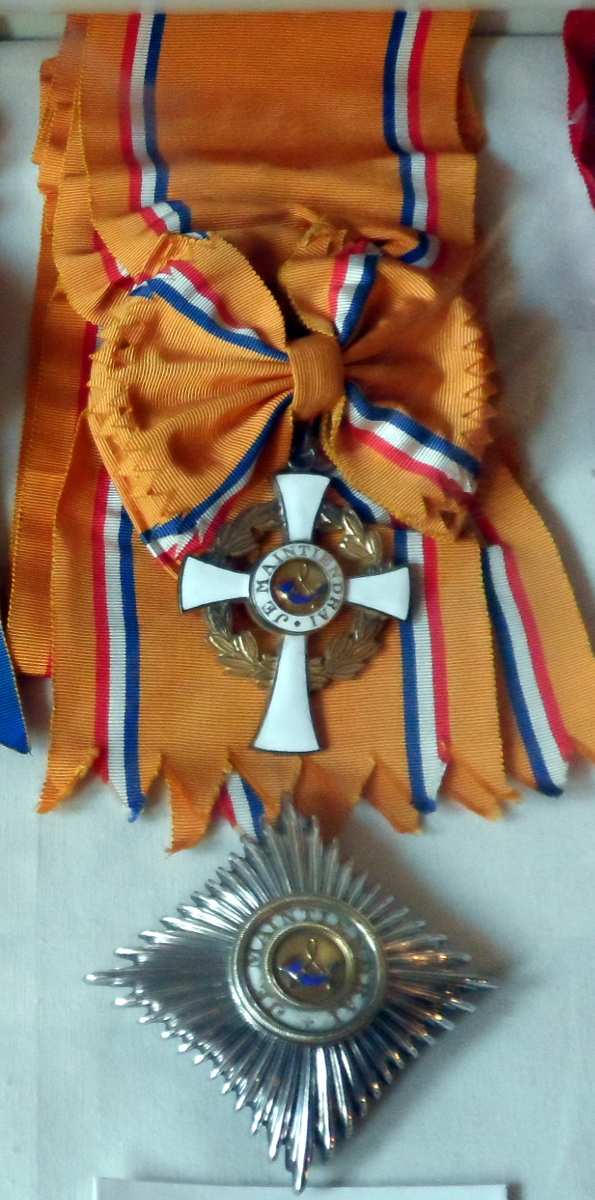 Star and riband of a Knight Grand Cross of the Order of the Crown (Netherlands)